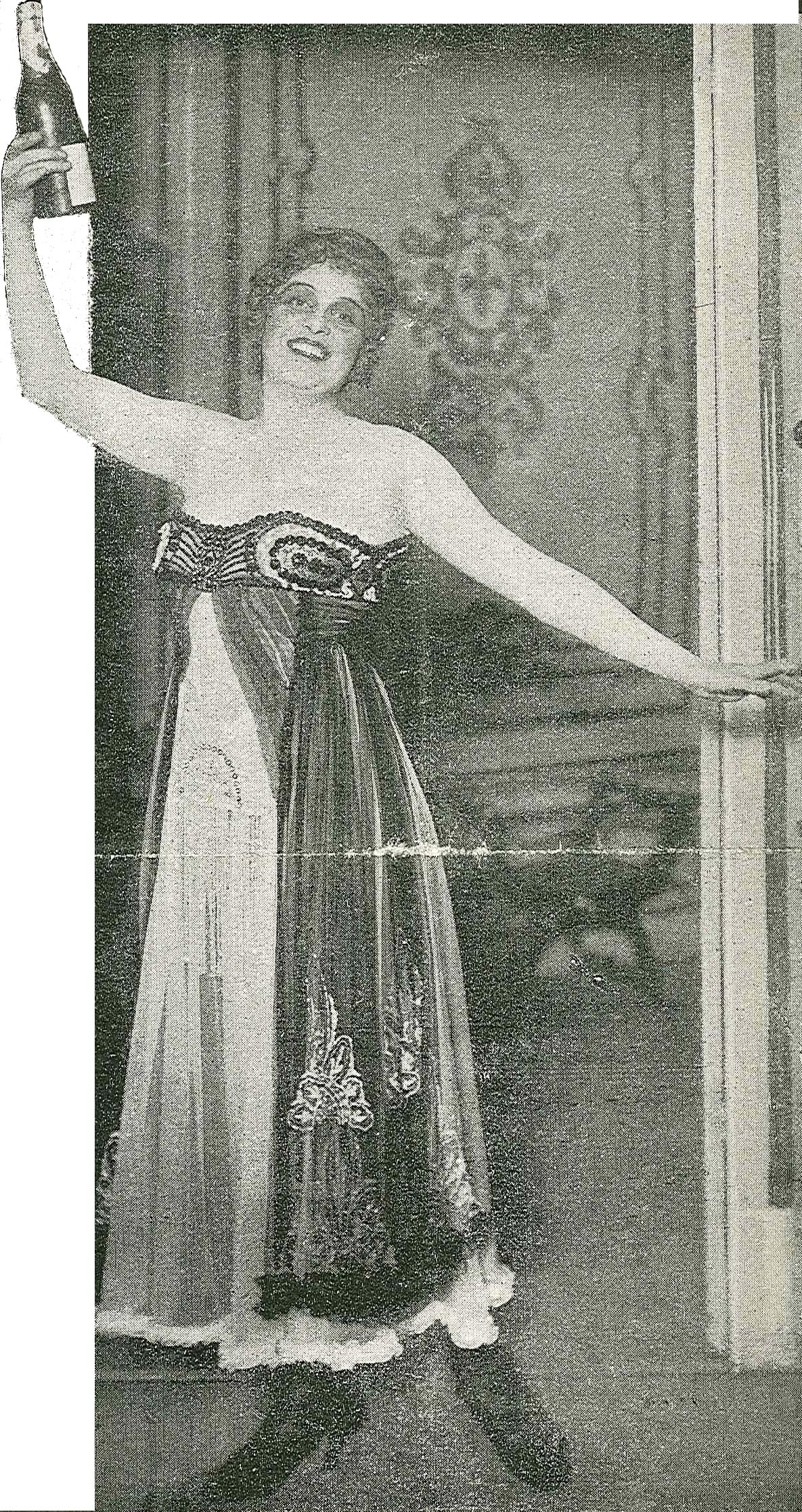 Sickan Castegren (1887-1963), Finnish-Swedish actress; here in a scene from Svasse Bergqvist's revue Ack, Elvira at Södra Teatern in Stockholm.